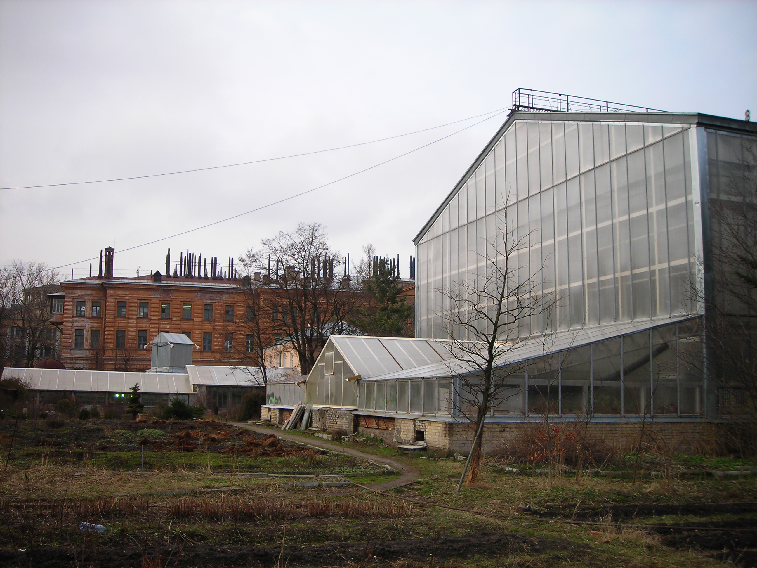 Botanical Garden (St.-Petersburg State University, Russia)